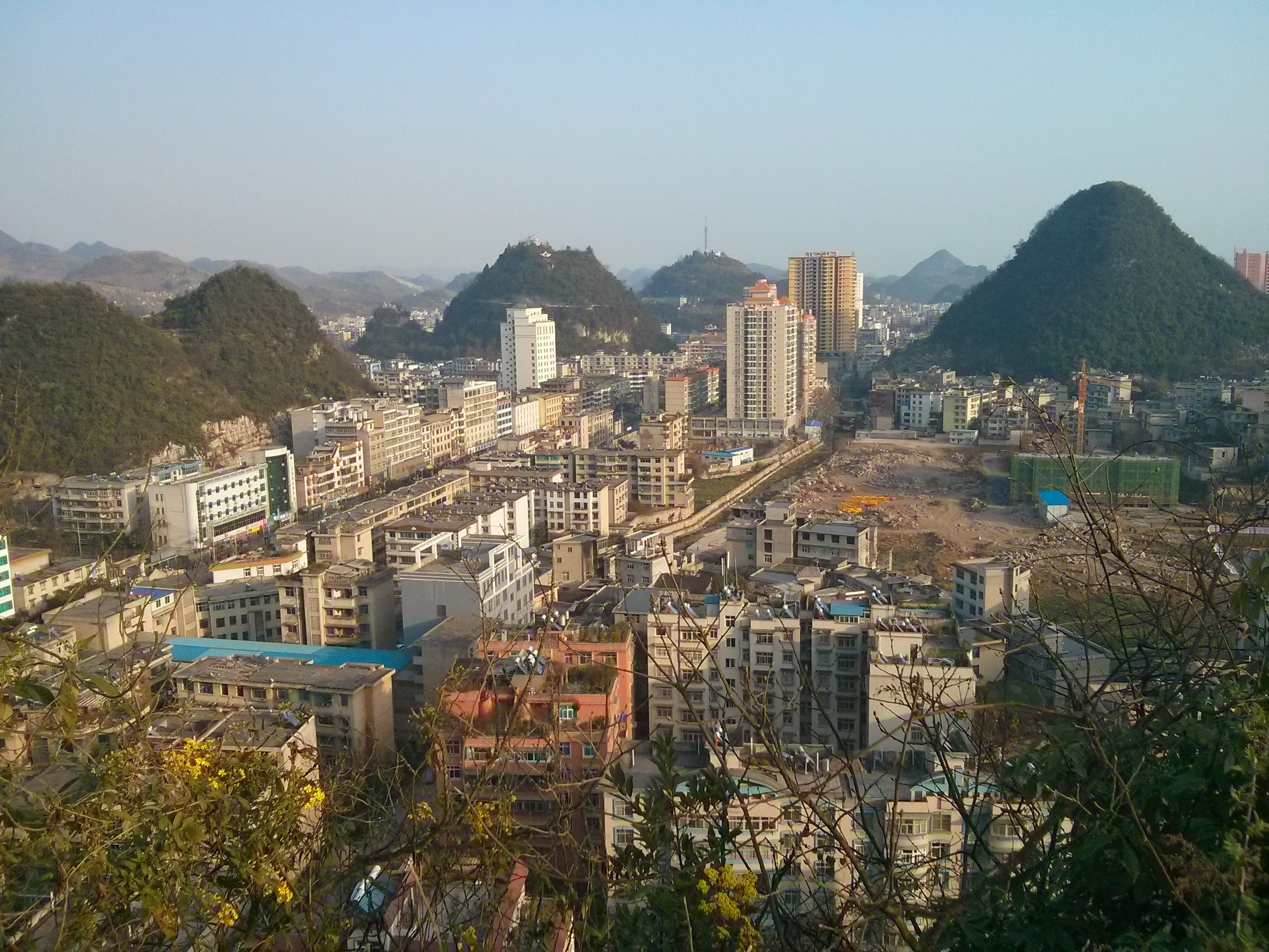 An overview of Liuzhi Special District from Mountain Jiutou's peak